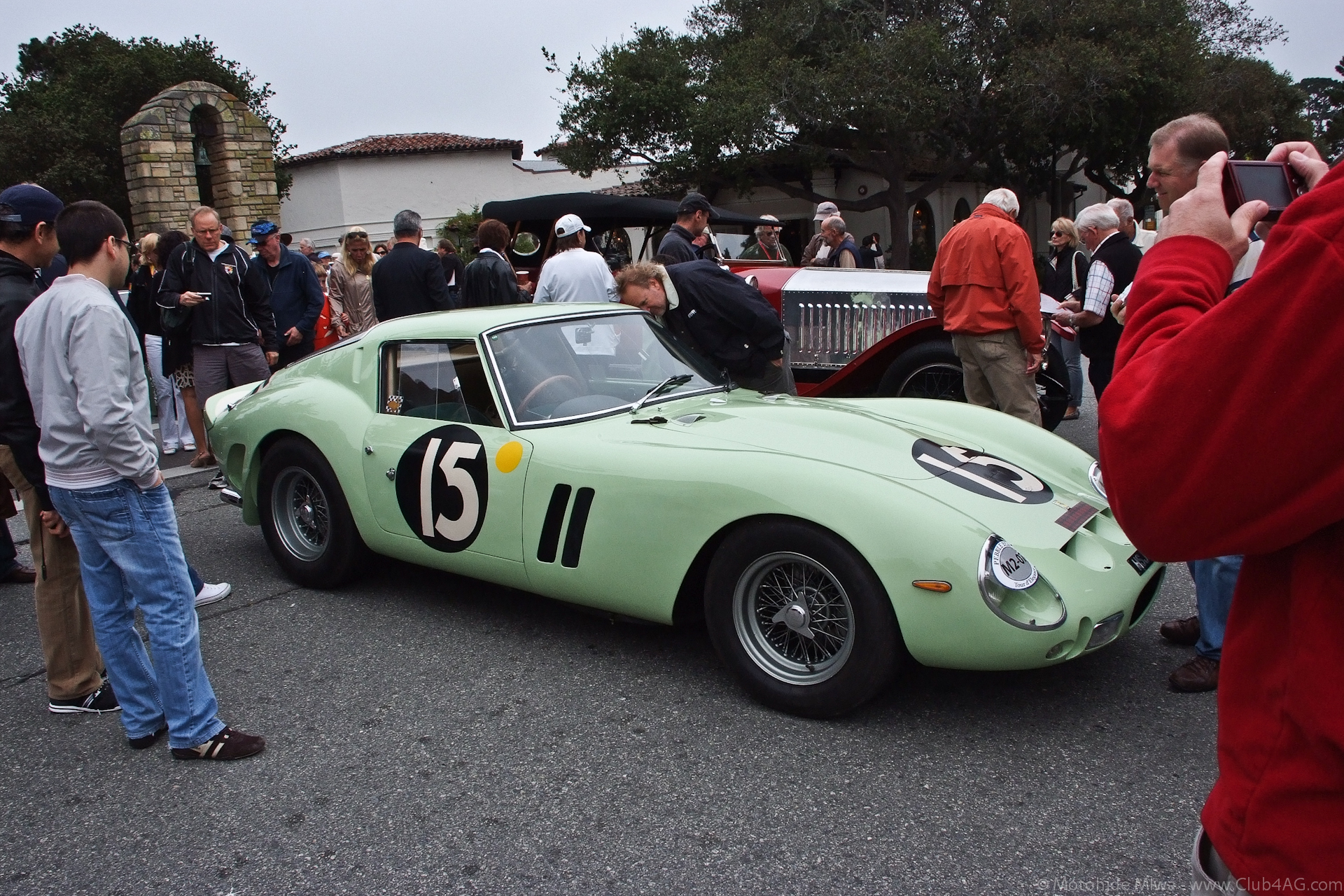 Monterey_Historics_2011-10-63